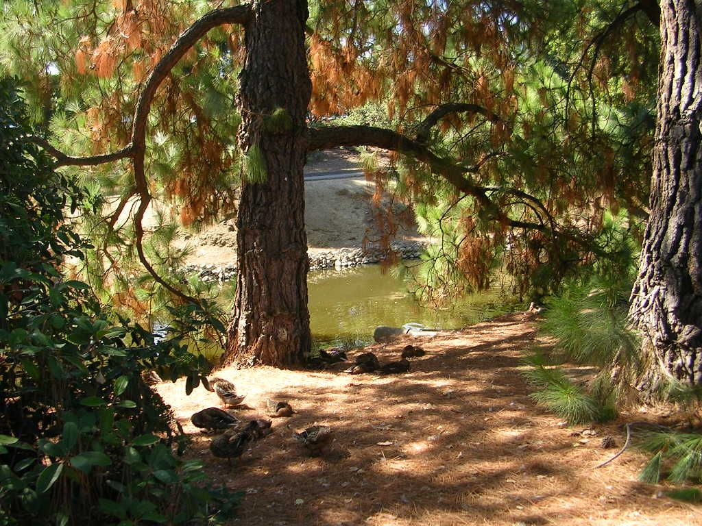 A Canary Island Pine Pinus canariensis planted at the University of California - Davis Arboretum.